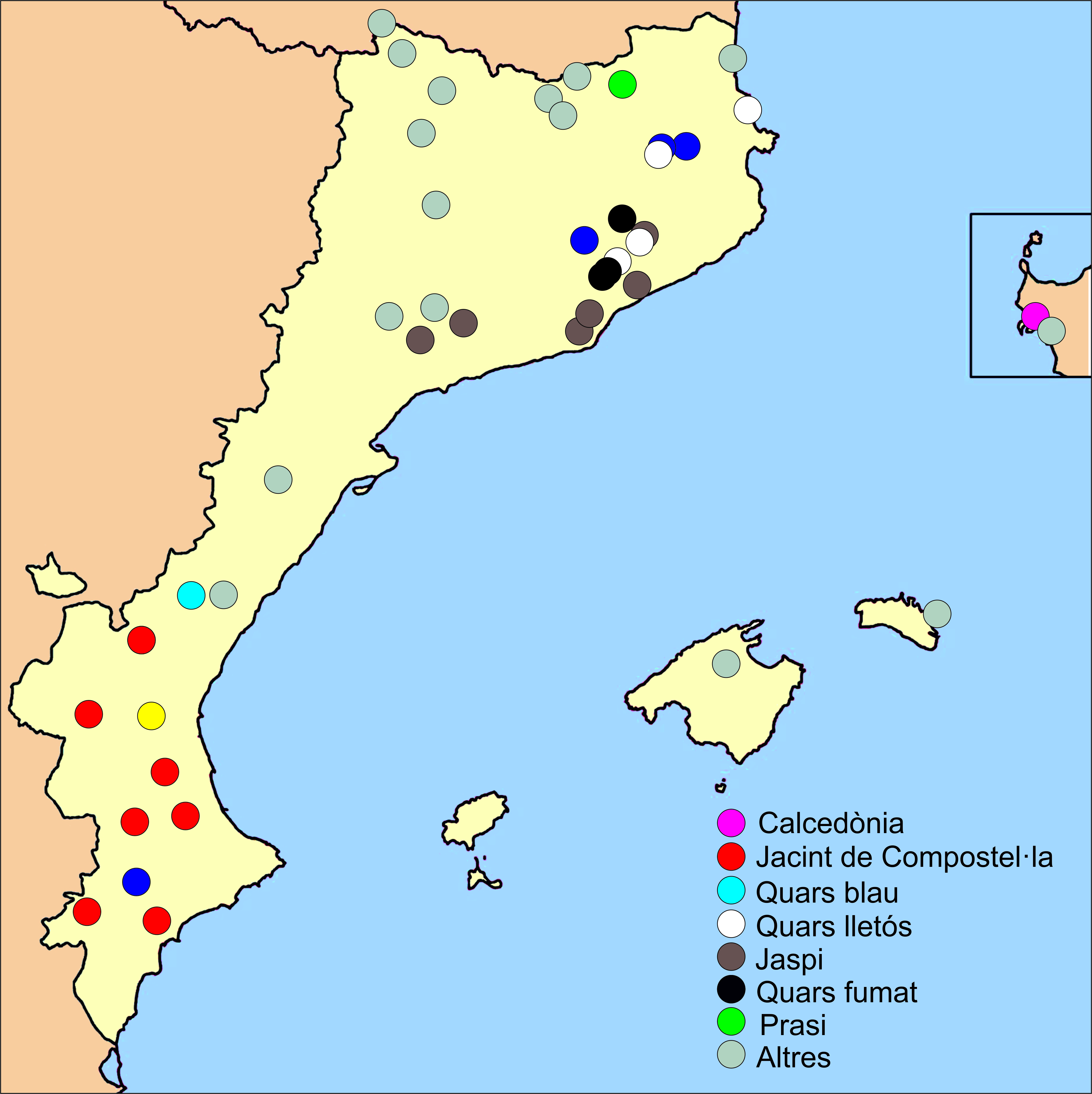 Quartz location in Catalan Countries